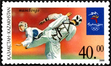 Kazakhstan stamp, Taekwondo, 2000 Summer Olympics, Sydney, 2000